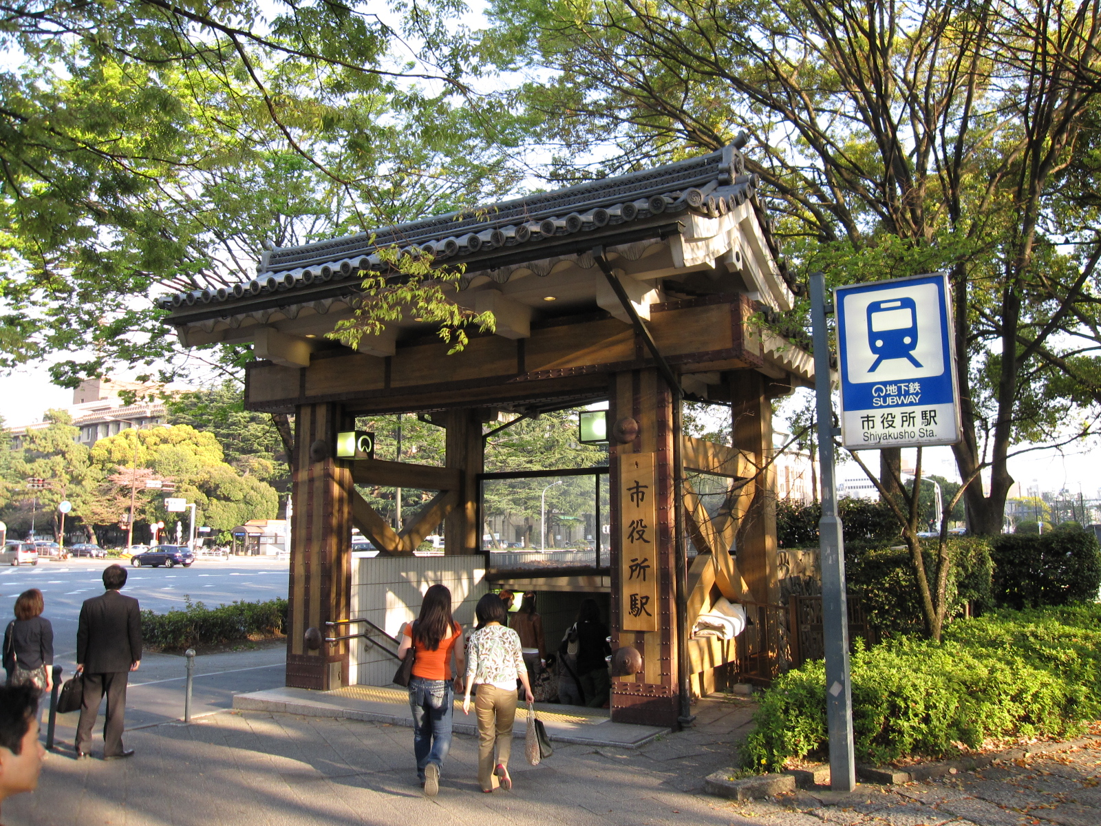 Shiyakusho Station in Nagoya, central Japan.